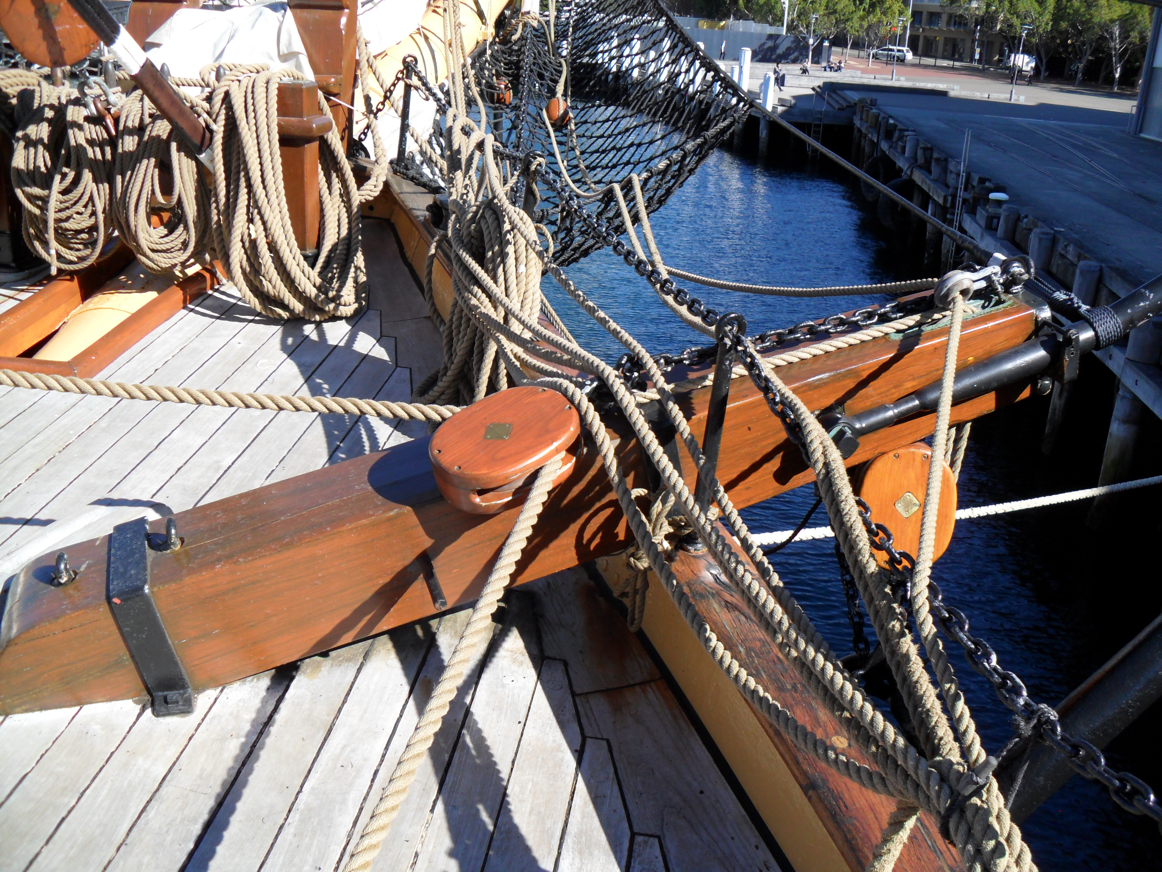 James Craig cathead